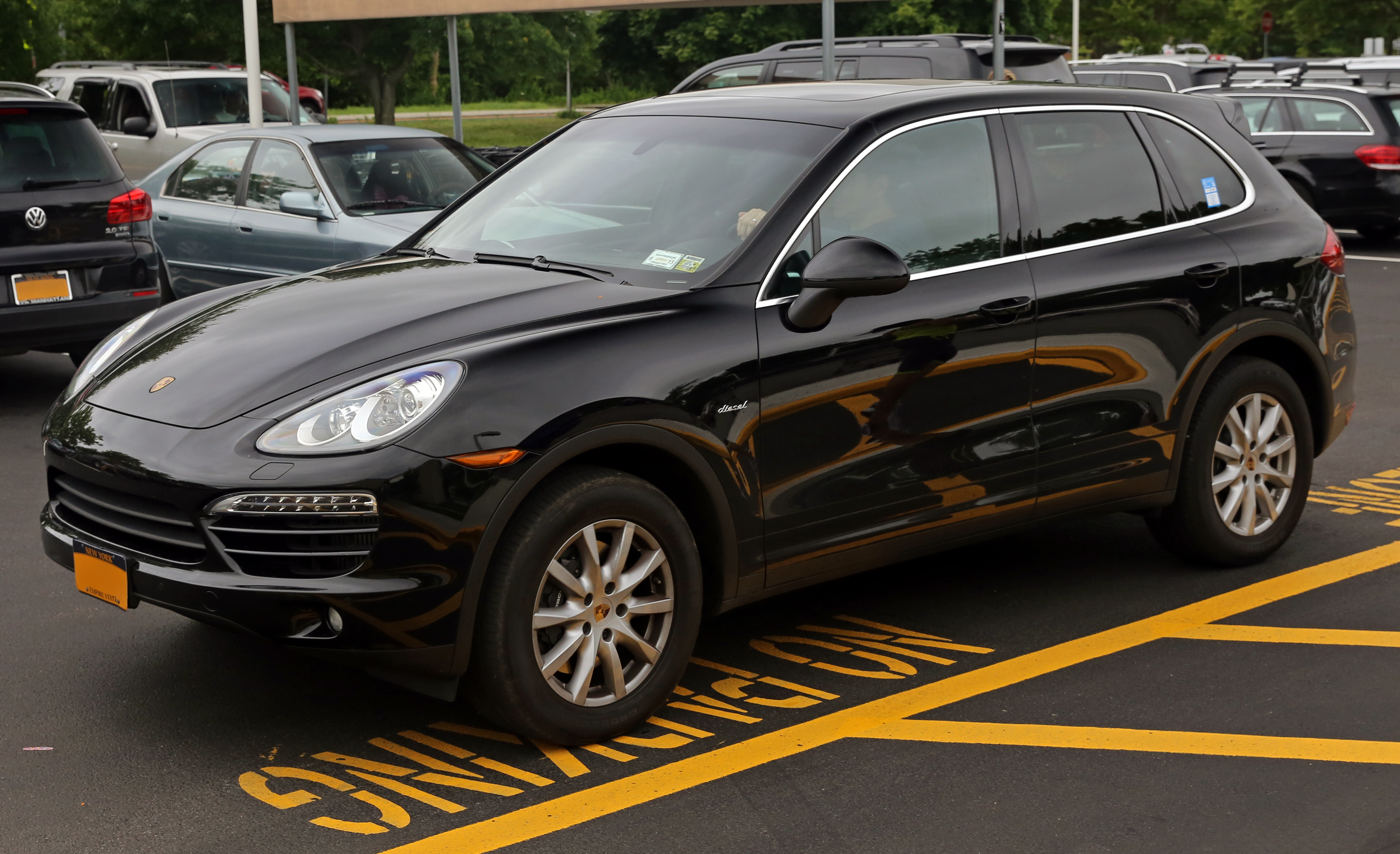 Circa 2013 Porsche Cayenne Diesel in Amagansett, NY. Lowest-spec model, I almost expected it to have hubcaps...